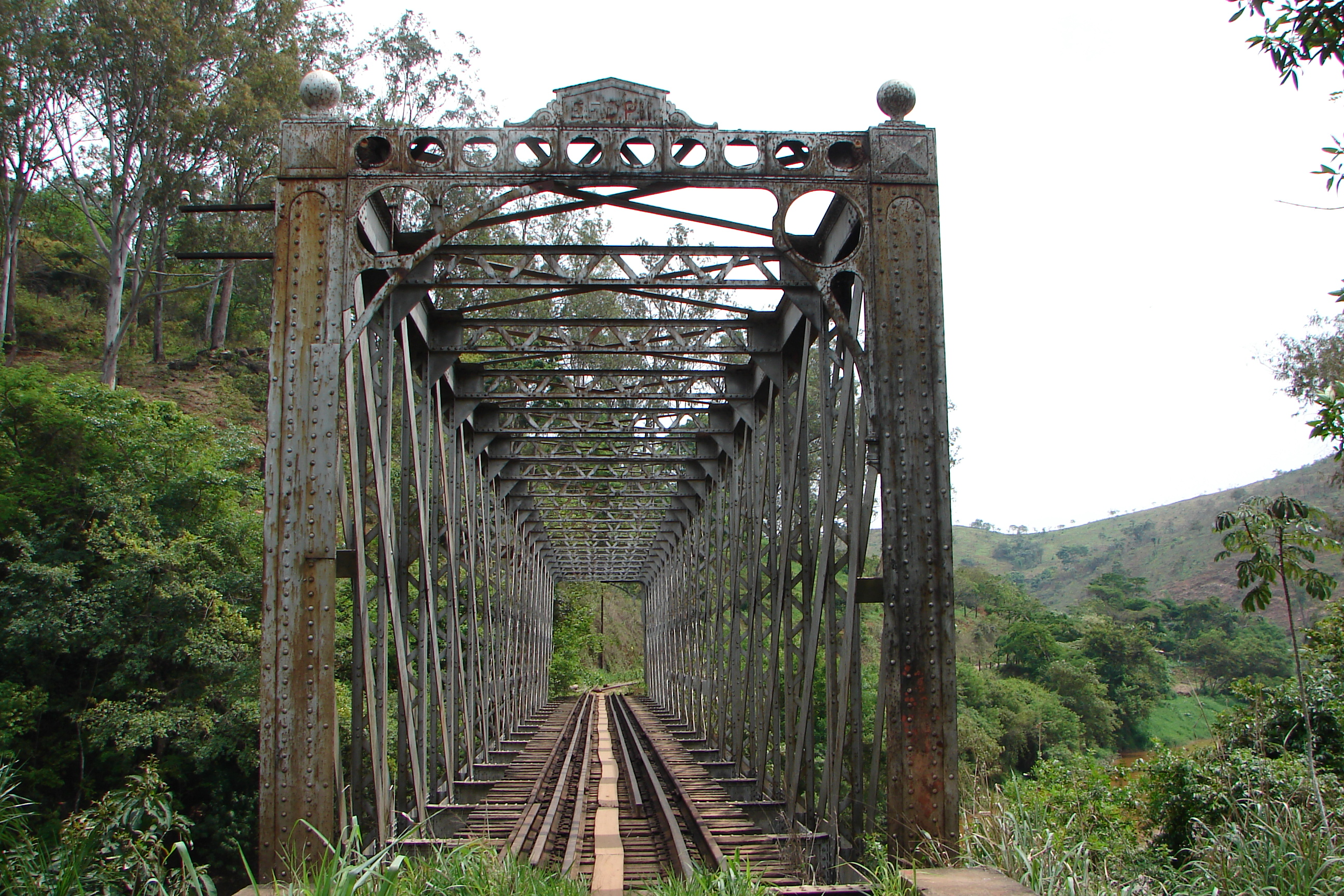 Ponte de D Pedro Raposos